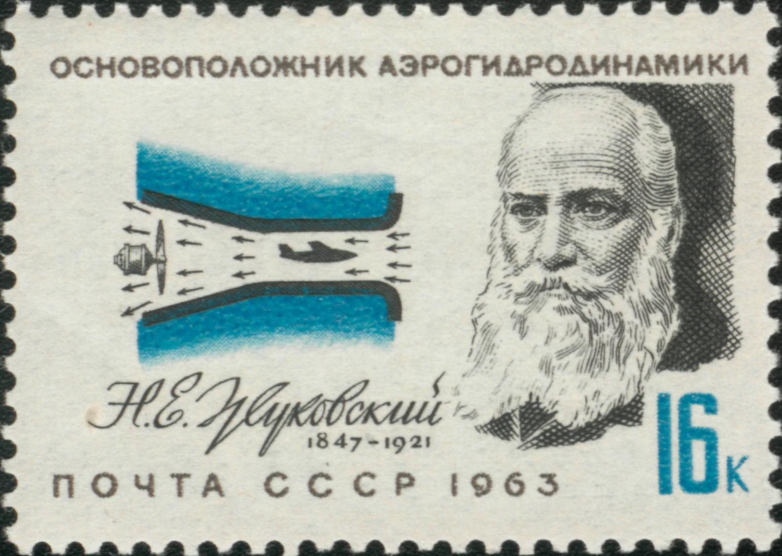 Soviet stamp of 16 kopecks (1963). Nikolai Zhukovsky, a Russian scientist, founding father of modern aero- and hydrodynamics (1847-1921)